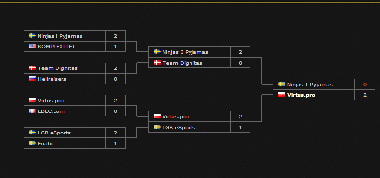 Finasl CS GO